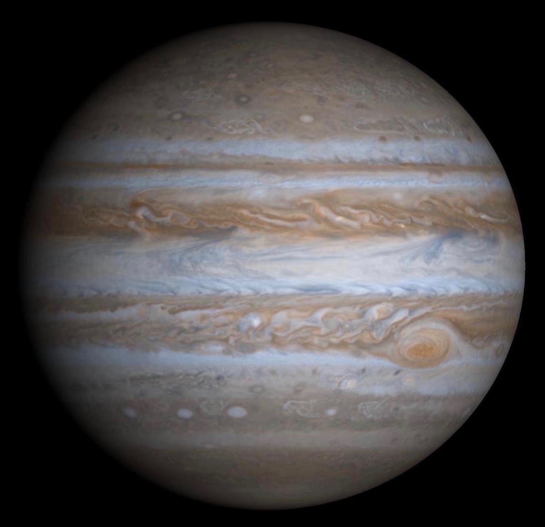 This true-color simulated view of Jupiter is composed of 4 images taken by NASA's Cassini spacecraft on December 7, 2000. To illustrate what Jupiter would have looked like if the cameras had a field-of-view large enough to capture the entire planet, the cylindrical map was projected onto a globe. The resolution is about 144 kilometers (89 miles) per pixel. Jupiter's moon Europa is casting the shadow on the planet.